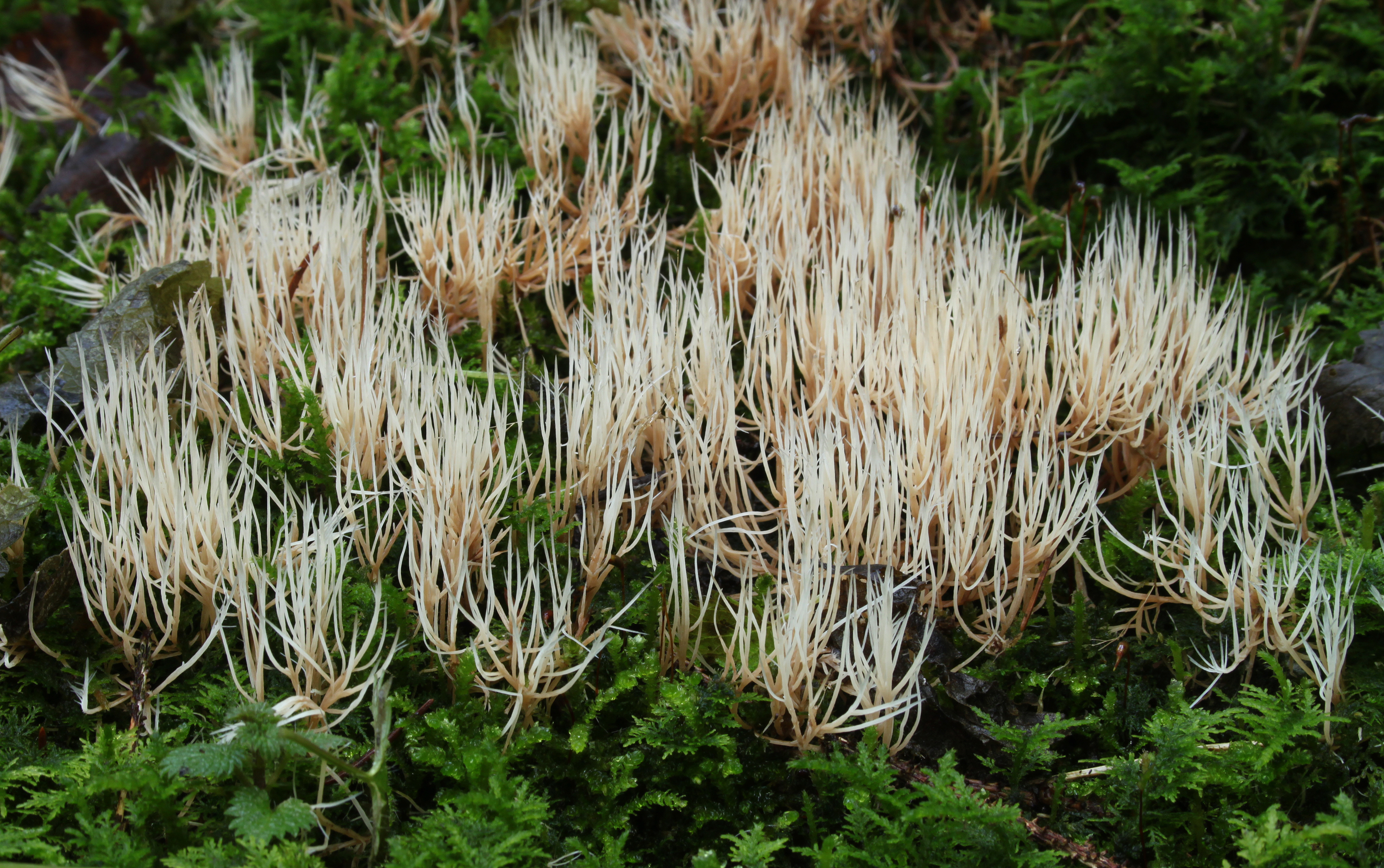 Pterula multifida, Family: Pterulaceae,, Location: Germany, Biberach